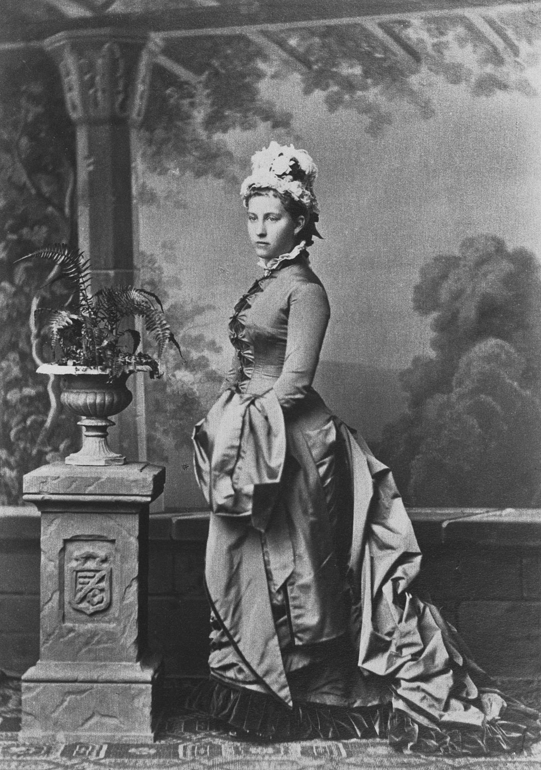 Charlotte of Prussia, daughter of Frederick III, German Emperor, and Victoria, Princess Royal of the United Kingdom.